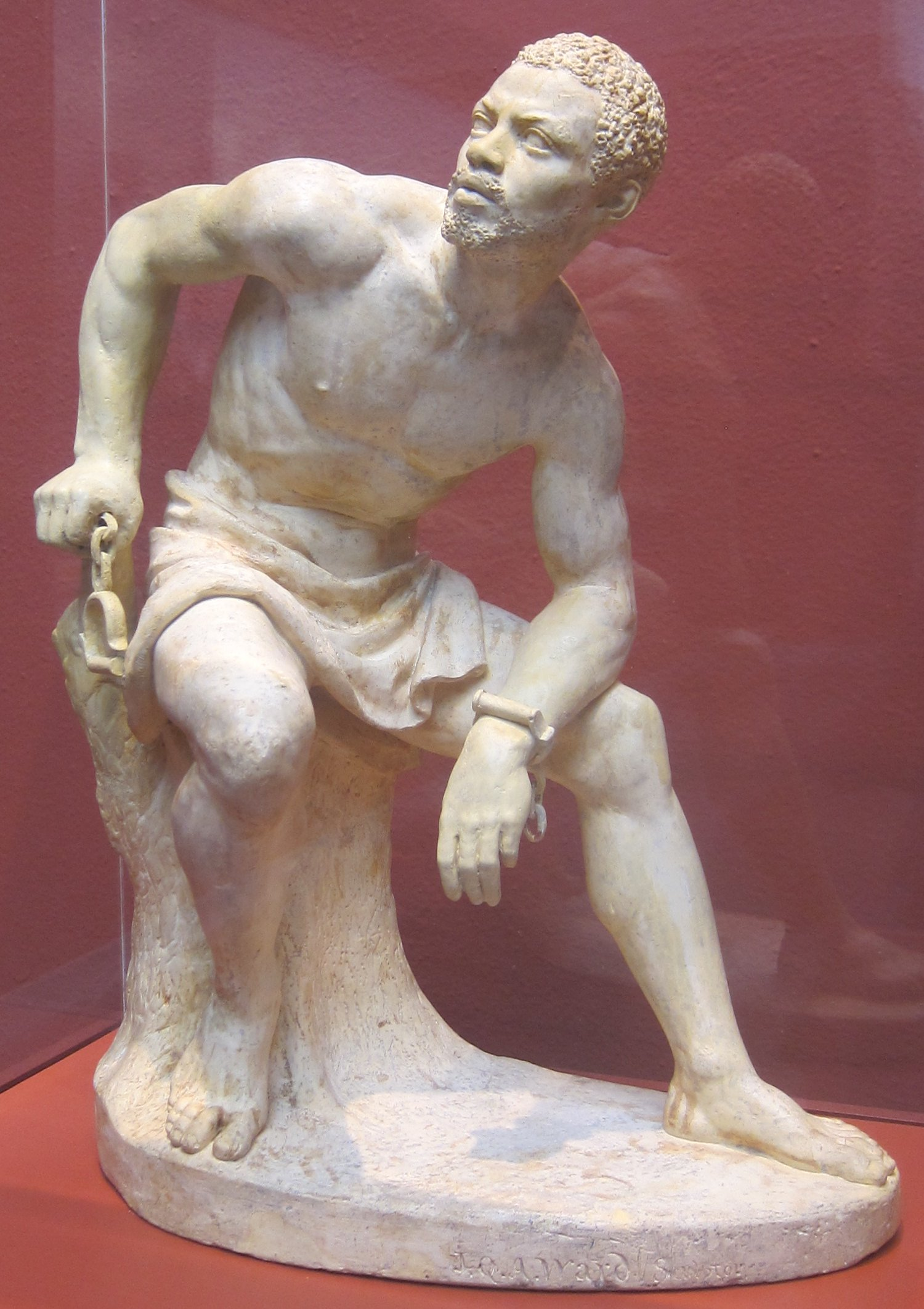 Freedman, plaster sculpture by John Quincy Adams Ward, 1863, Pennsylvania Academy of the Fine Arts